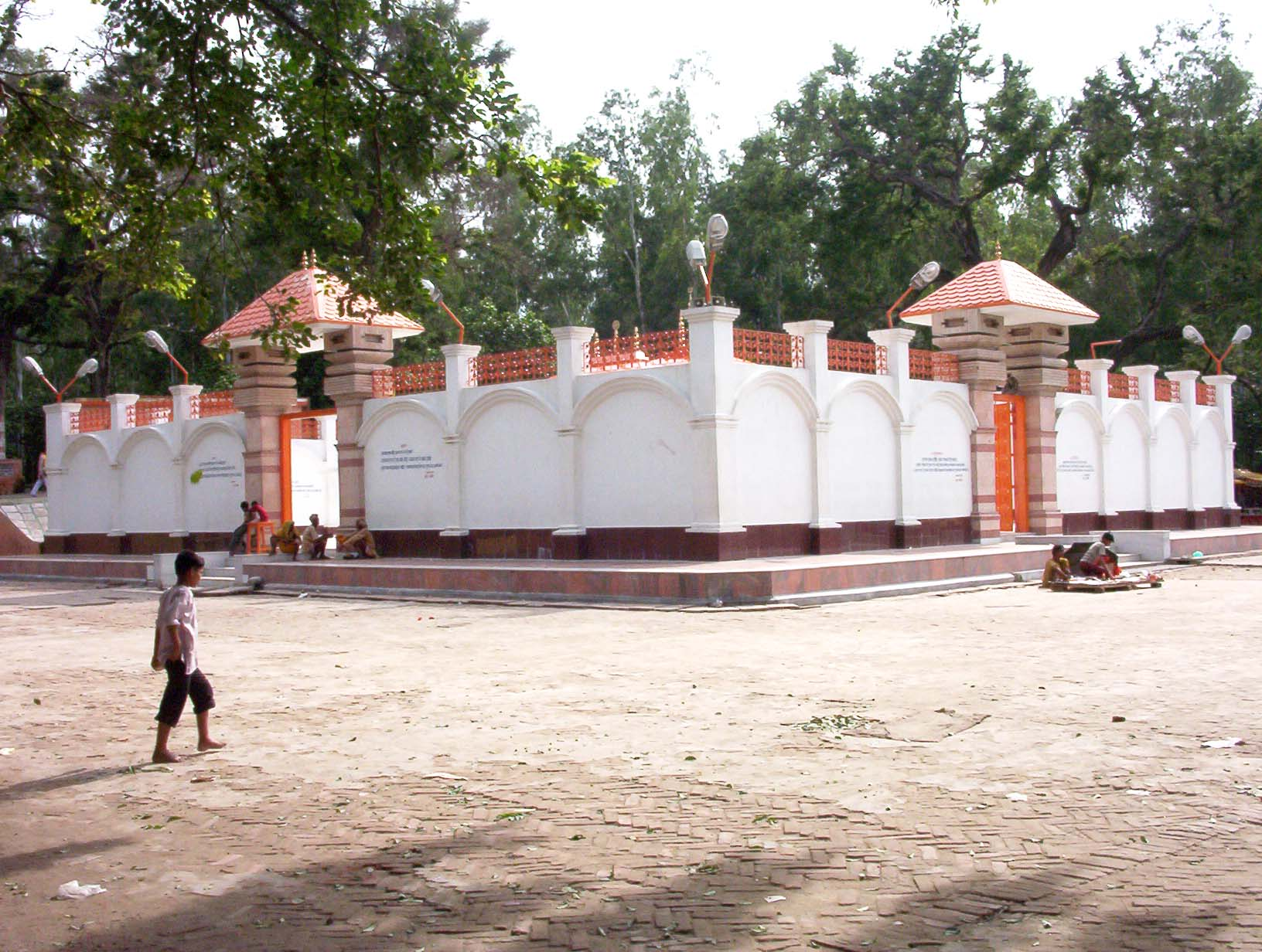 Thawe Durga Mandir is a very famous Temple of goddess Durga, located in Gopalganj district,India.